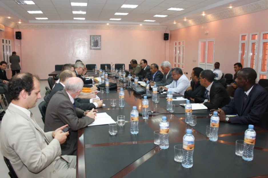 [Bakari Gueye] EU officials meet with their Mauritanian counterparts to discuss the renewal of a fishing pact. اجتماع المسؤولين الأوروبيين مع نظرائهم الموريتانيين لمناقشة تجديد اتفاقية الصيد البحري Les responsables de l'UE rencontrent leurs homologues mauritaniens pour discuter du renouvellement d'un accord sur la pêche.